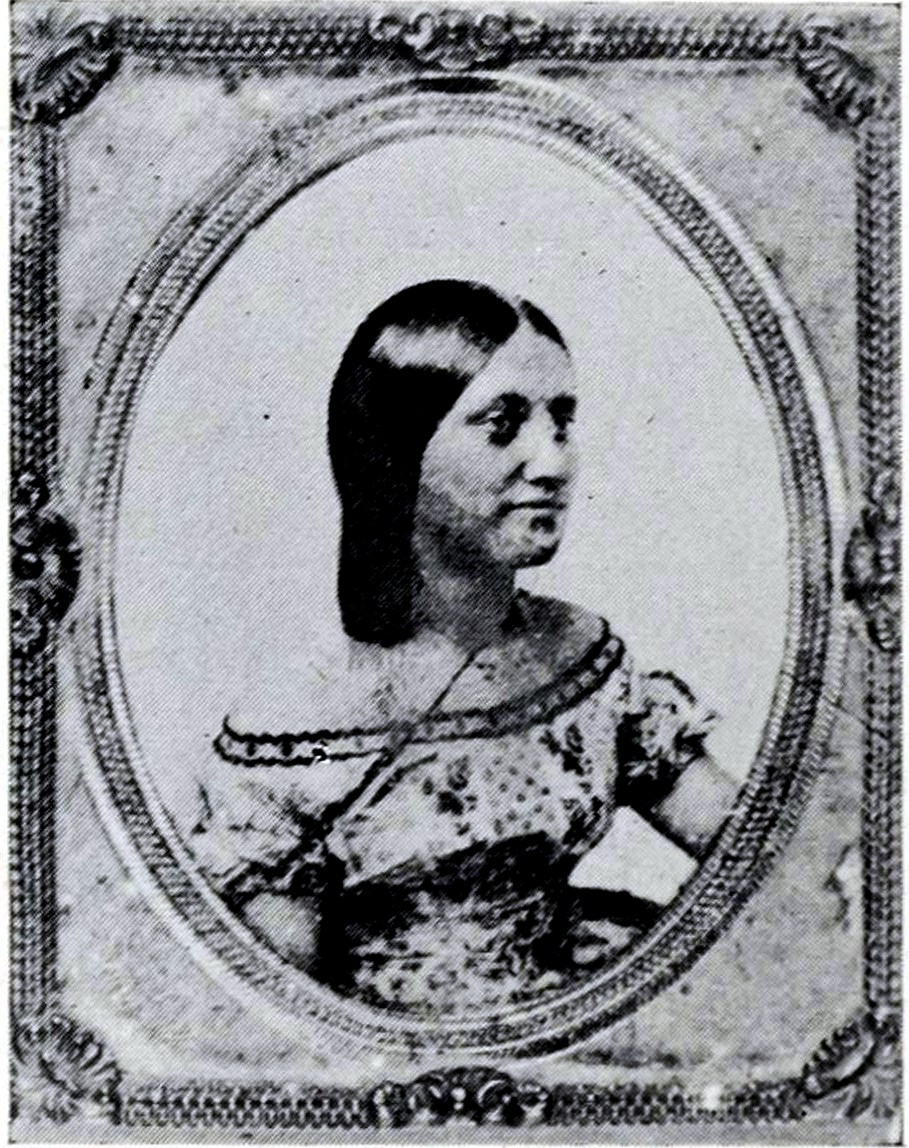 Mary Ann Kinoʻole Kaʻaumokulani Pitman. She is pictured in her bridesmaid gown for Queen Emma and Kamehameha IV's wedding. Caption: Miss Mary Ann Pitman (The late Mrs. Ailau).